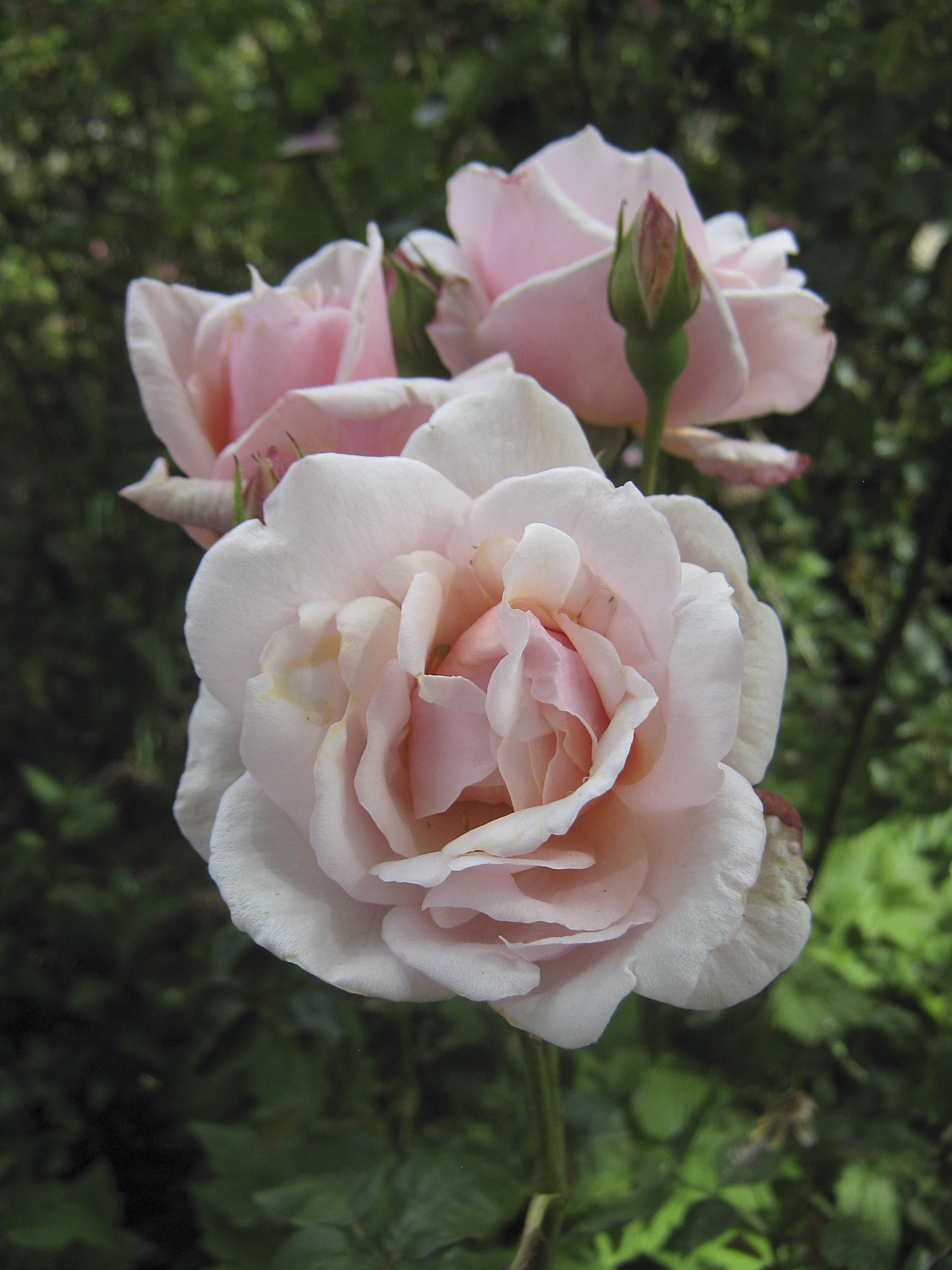 Rose 'Fairlie Rede', Hybrid Tea by Alister Clark 1937; Photographed in the Alister Clark Memorial Rose Garden, Bulla, Victoria